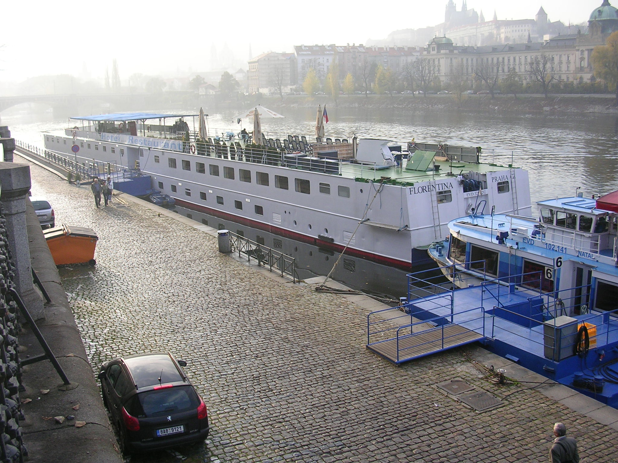 Prague, Florentina Ship.